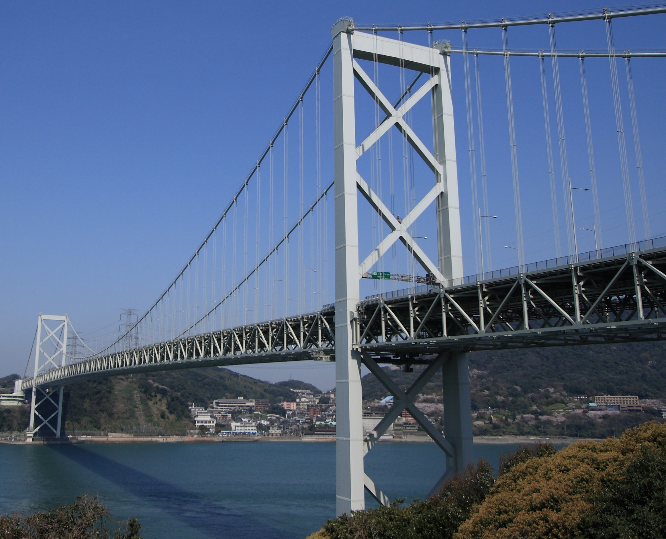 The Kanmonkyo Bridge is a suspension bridge crossing the Kanmon Straits in Japan